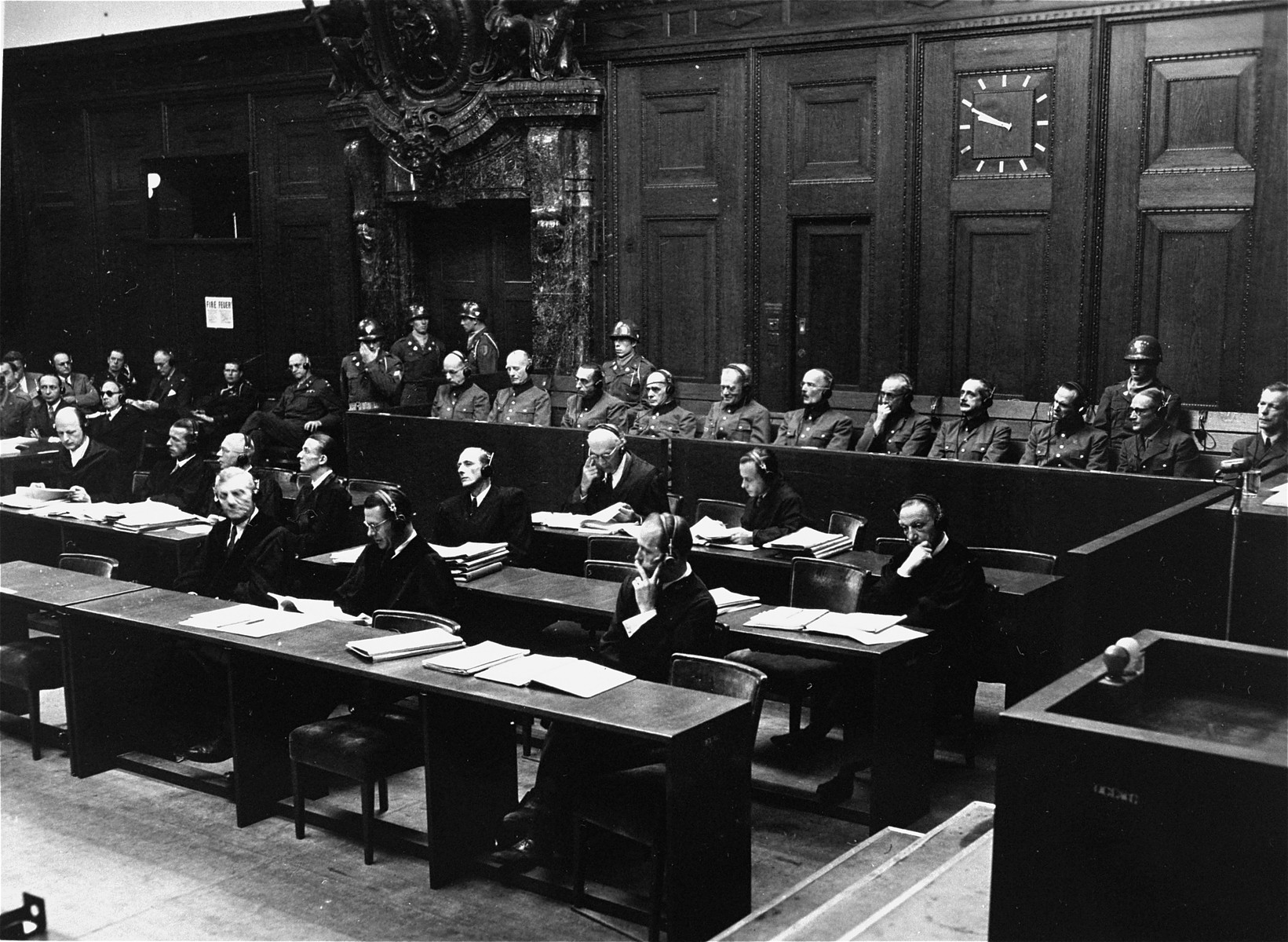 Defendants in the during the Hostages Trial in Nuremberg. From left to right: Wilhelm List, Walter Kuntze, Hermann Foertsch, Curt von Geitner, Maximilian von Weichs, Lothar Rendulic, Ernst Dehner, Ernst von Leyser, Hubert Lanz, Hellmuth Felmy, Wilhelm Speidel. (Accused Franz Böhme is not present in this picture as he committed suicide on May 29, 1947.) Compare with the official trial proceedings: Trials of War Criminals Before the Nuernberg Military Tribunals Under Control Council Law No. 10, Vol. XI: United States of America vs. Wilhelm List, et. al. (Case 7: „Hostages Case“). US Government Printing Office, District of Columbia 1950, pg. 764. This photograph was taken by US Army photographers on behalf of the Office of Chief of Counsel for War Crimes (OCCWC) during the trial, which lasted from May 1947 until February 1948. The USHMM-Website wrongly claims copyright on this photograph, stating courtesy of John W. Mosenthal. Mosenthal was a research analyst working on the final compilation and editing of the proceedings manuscript (Vol. XI) in his official function for the War Crimes Division, Office of the Judge Advocate General, and as such this photograph is PD-USGov-Military-Army.